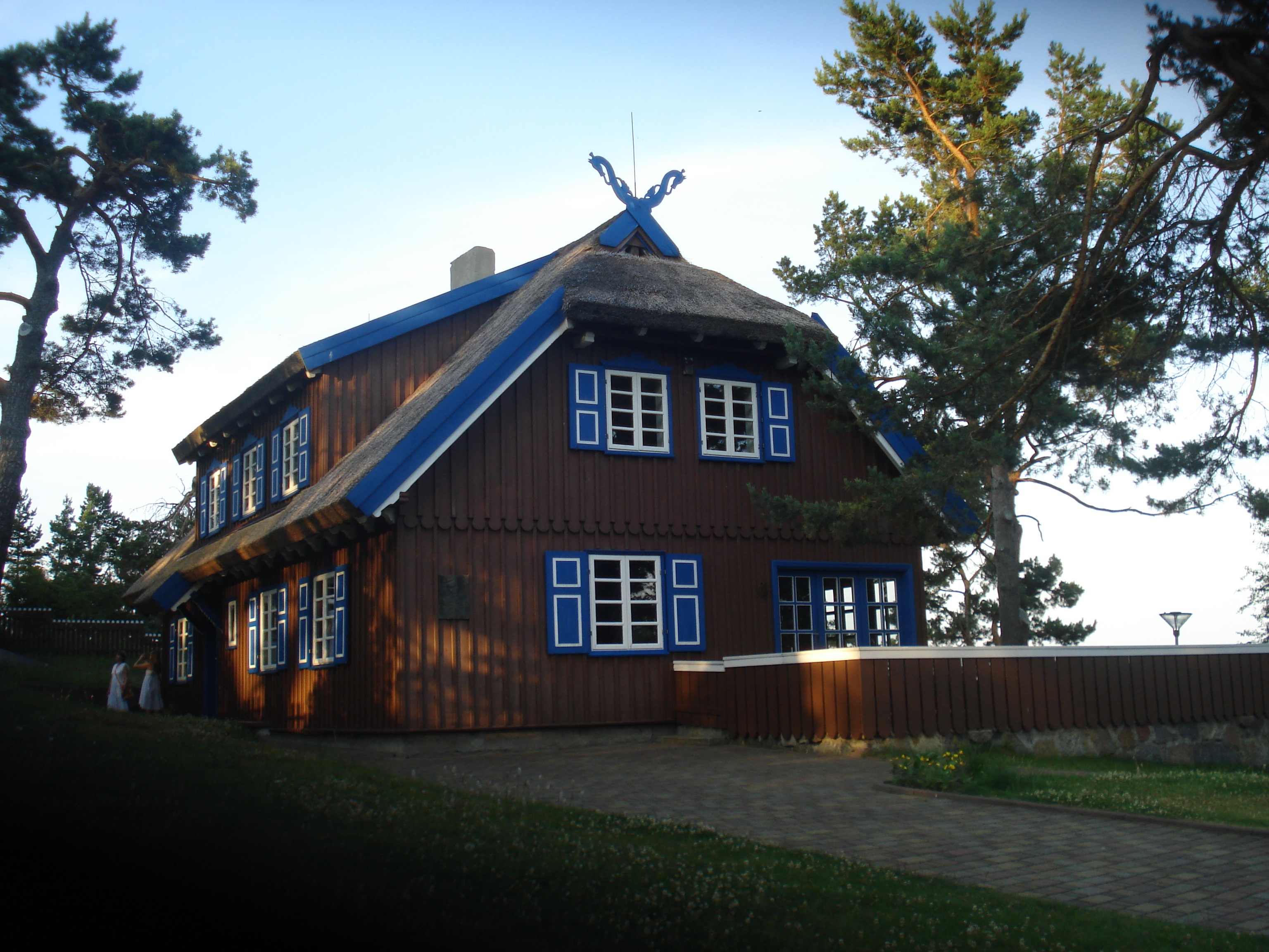 Thomas Mann museum in Nida, Skruzdynės street 17 (Lithuania)